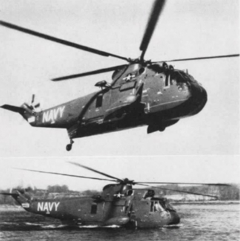 The prototype of the Sikorsky YHSS-2 Sea King helicopter (after 1962 SH-3A), BuNo 147137, which made its first flight on 11 March 1959.